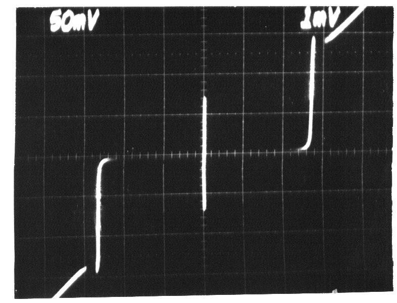 Photo of Nb-Al oxide -Al Josephson Junction A typical photo of a real Josephson Junction